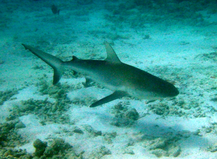 Galapagos shark (Carcharinus galapagensis) Image ID: reef0692, NOAA's Coral Kingdom Collection Location: Northwest Hawaiian Islands